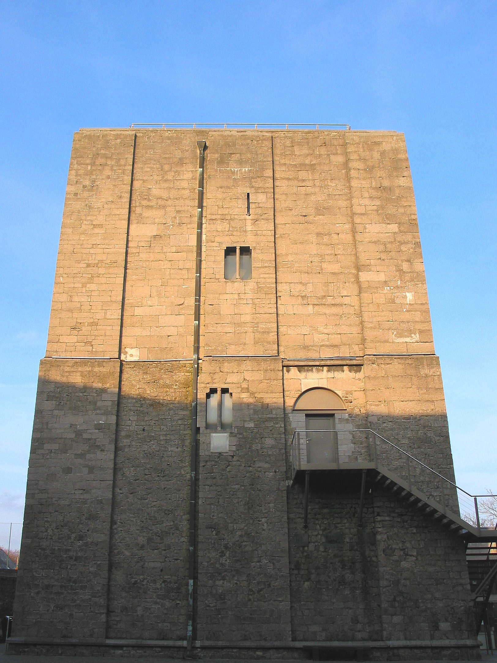 Ath (Belgium), the Burbant tower (XIIth century).